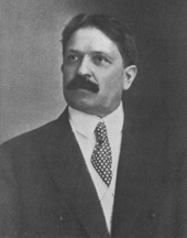 Portrait of Senator Samuel Henry Piles of Washington